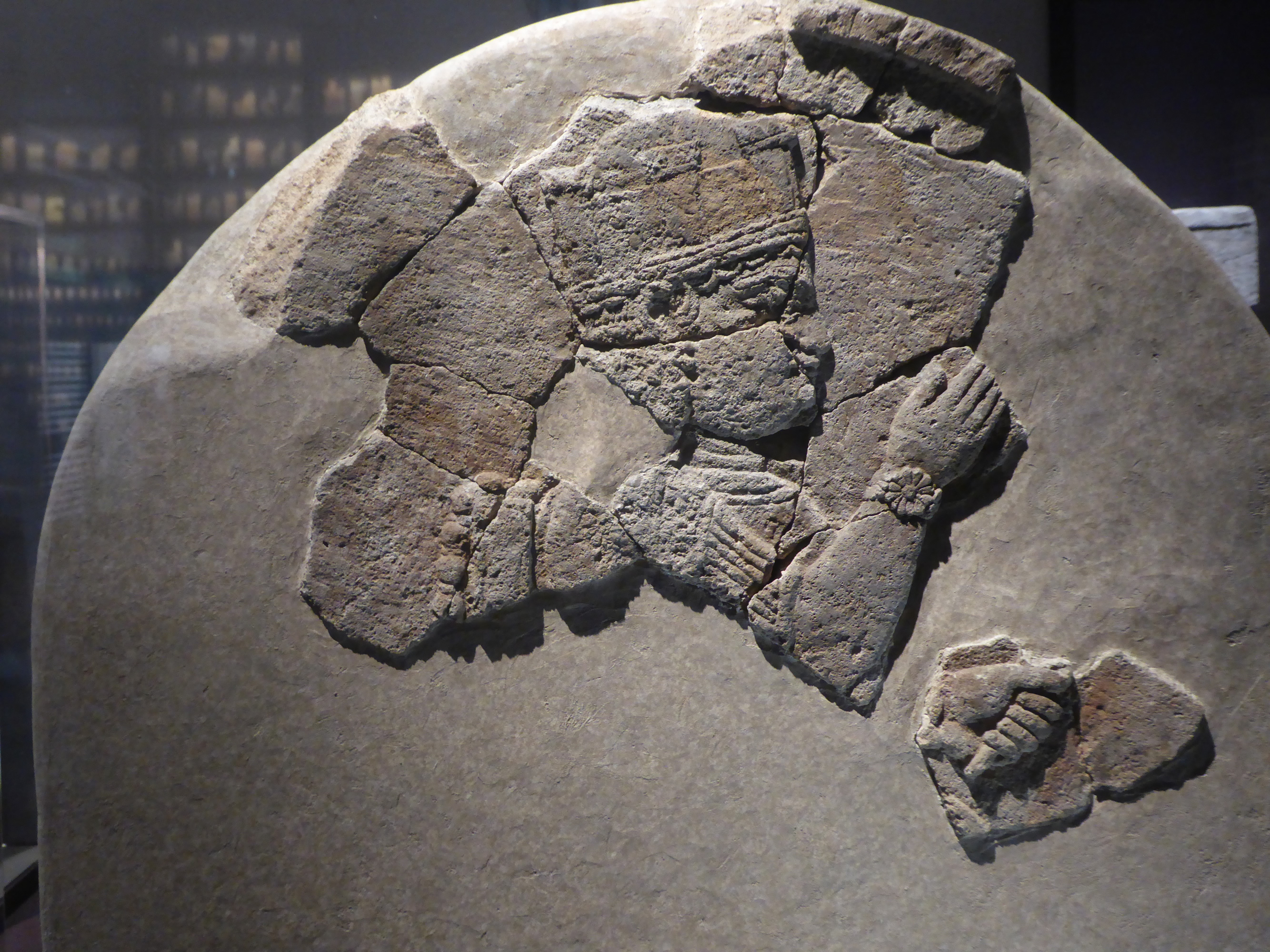 Steal showing the Assyrian queen Libbali-sharrat, wife of Ashurbanipal.